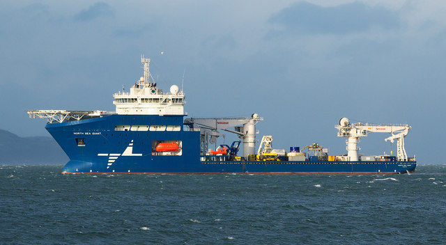 Specialist offshore construction vessel North Sea Giant in Bangor Bay. When launched in 2009, this was the longest vessel of its type in the world. It is designed "for long term construction works in the open sea, supporting a crew of 120 people. The ship has a heliport, exercise hall, movie theater and sauna. There are two cranes on deck, one with a load capacity of 400 tons and the other 250 tons.". The ship has been working in the North Channel since October 2011 repairing the faulty Moyle Interconnector, a subsea high voltage cable which runs between Scotland and Ireland. The ship temporarily sat off Bangor on the 8th December 2011 taking shelter from extremely strong winds in the North Channel, although they also took advantage of this situation to transfer crew onboard via the 'Bangor Boat'